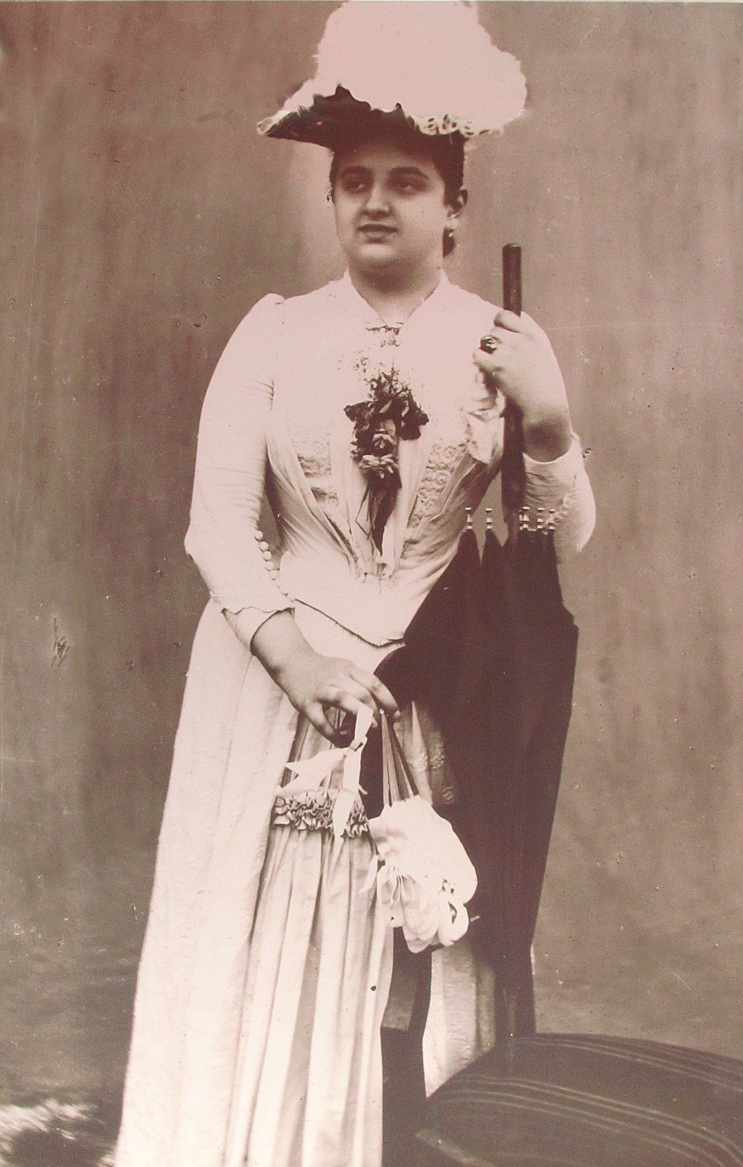 Stana Stanijević, Historical Museum of Serbia